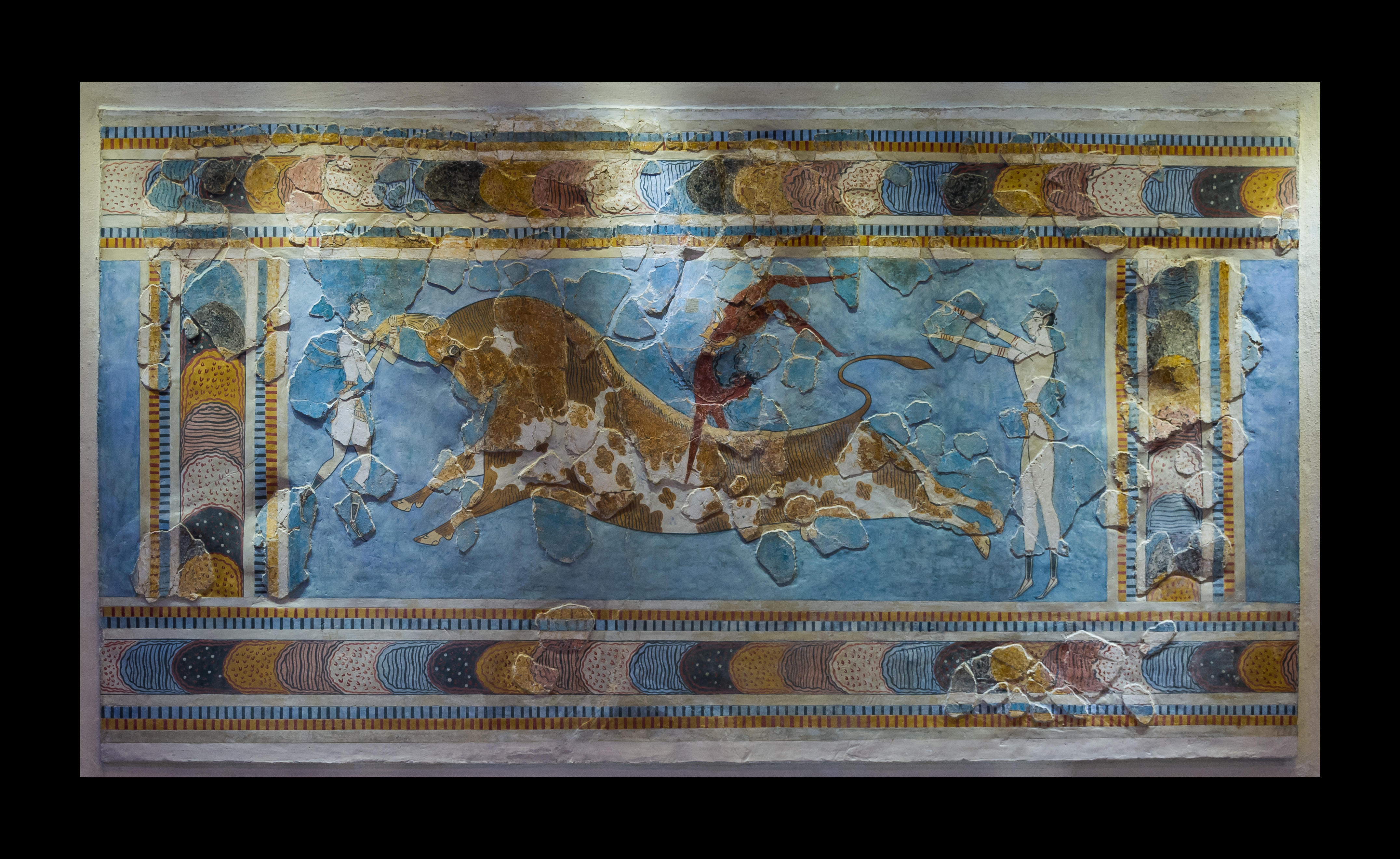 The bull-leaping fresco, original. Found in Knossos palace, Crete, Greece. It dates around 1600 - 1450 BCE. Part of a five-panel composition, the iconic Toreador Fresco depicts an acrobat at the back of a charging bull. A second figure prepares to leap, while a third waits with arms outstreched. The event may have resemnled the Course alandaise of modern southwest France. Bulls feature centrally in Knossian icongraphy and may have acted as a symbol of Knossian power. The central court may have served as an arena for bull-sports, although it was barely large enough